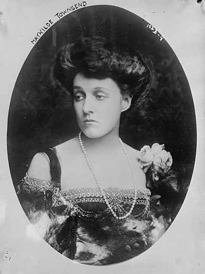 Mathilde Townsend, wealthy Washington society woman, wife of Peter G. Gerry and Sumner Welles